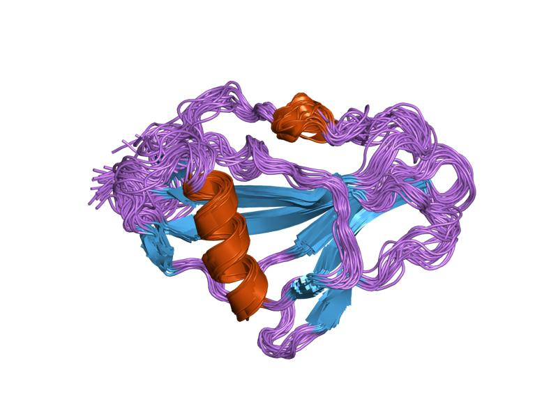 Cartoon representation of the molecular structure of protein registered with 1ssn code.